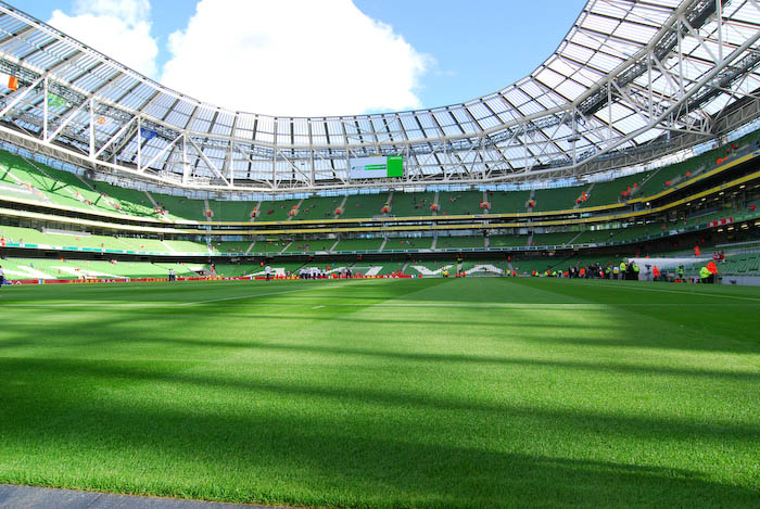 North Stand of the Aviva Stadium